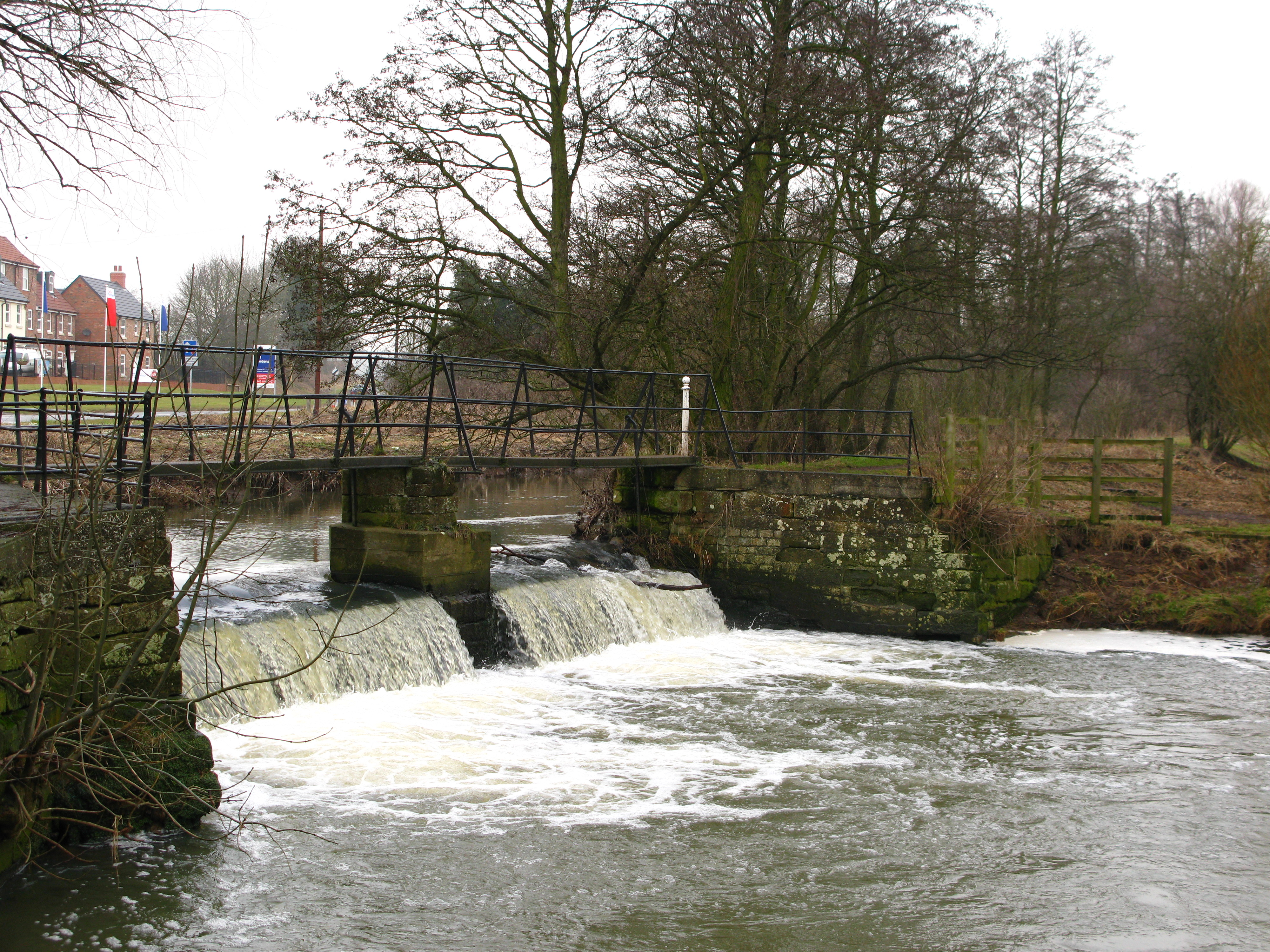 Cod Beck Weir, Thirsk Known locally as the waterfall, this weir and the nearby sluice gate are all that remain of the original extensive workings for Thirsk Mill.